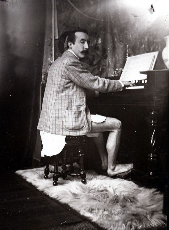 Paul Gauguin playing the harmonium in Alfons Mucha's studio at rue de la Grande-Chaumière, Paris